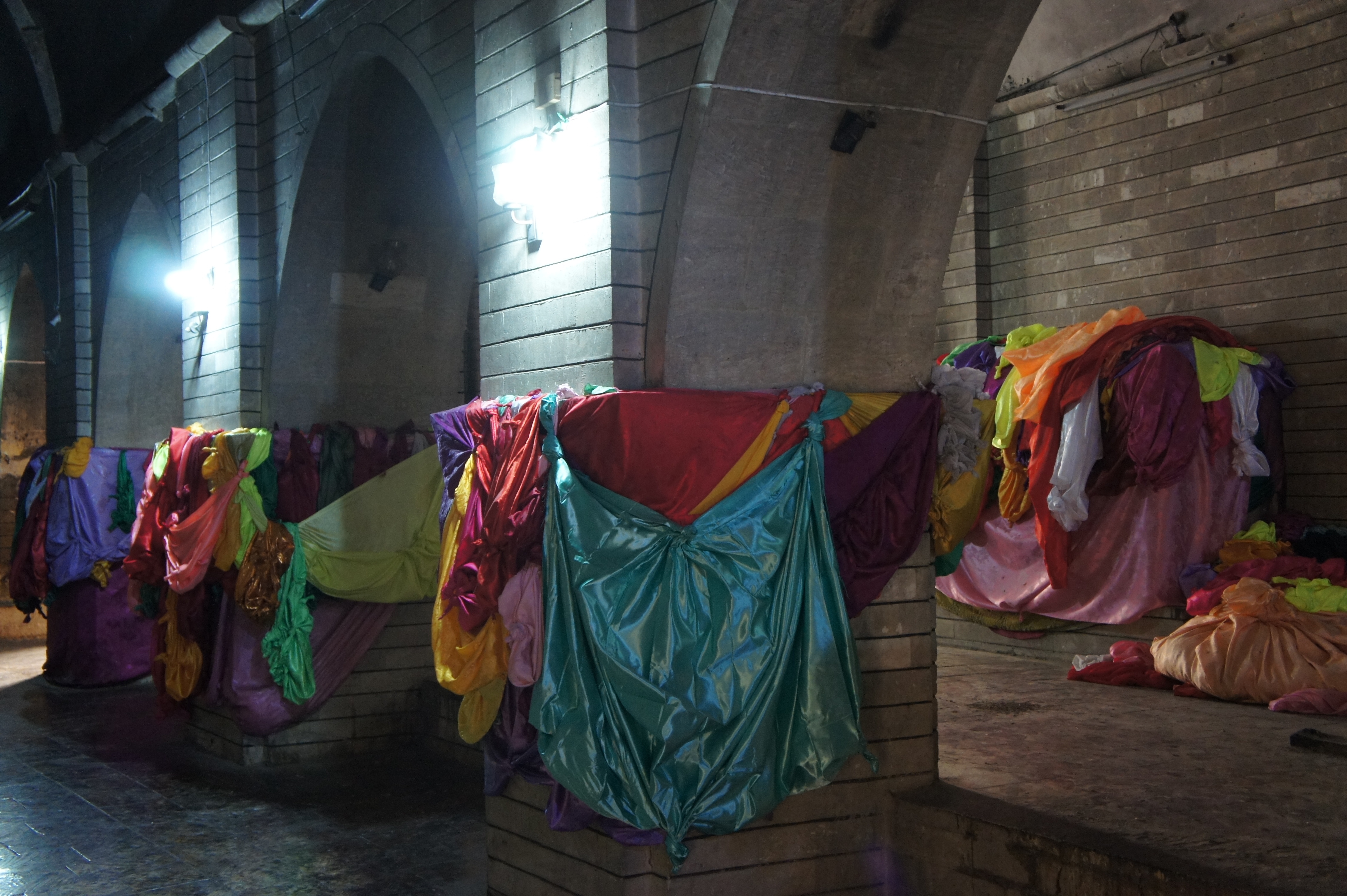 Inside the temple at Lalish. Kurdî: Li perestgeha Lalishê.